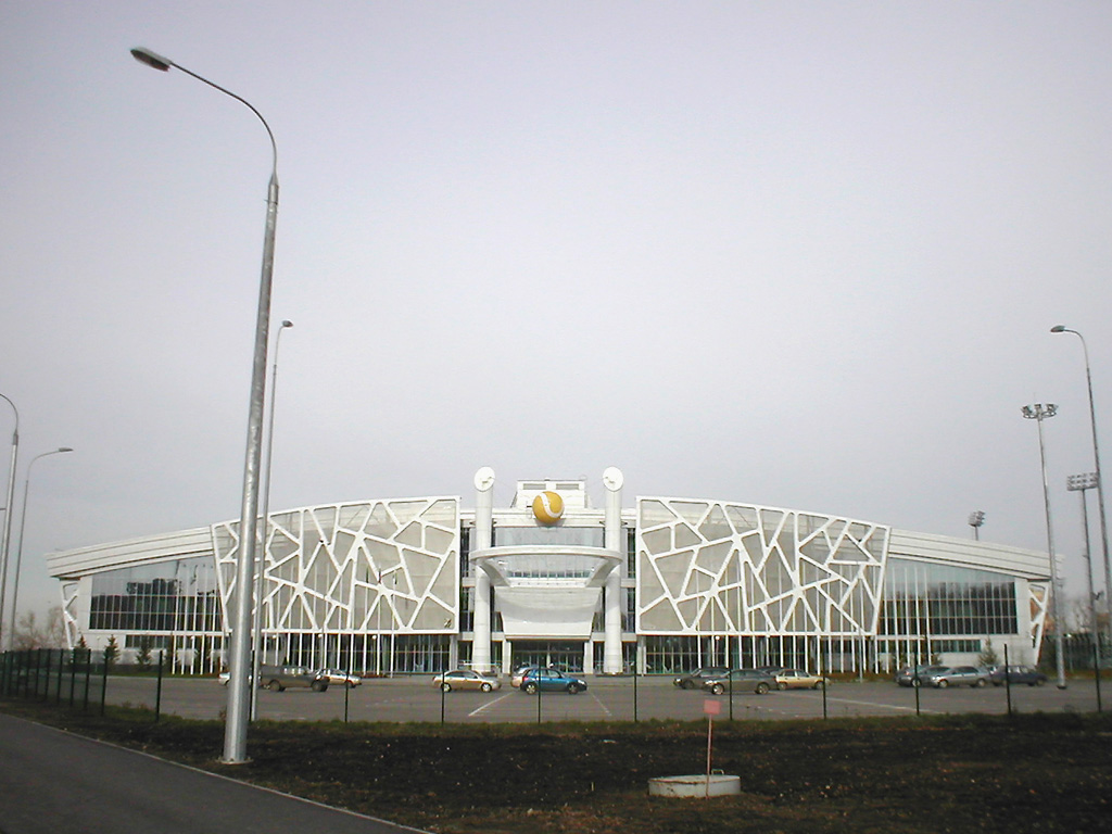 Tennis Academy near Universiade Village in Kazan